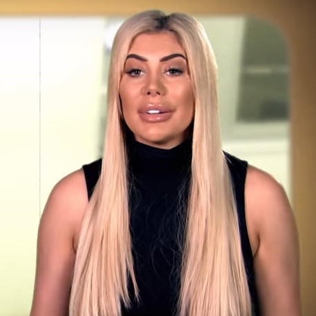 Geordie Shore is a British reality television series broadcast on MTV and based in Newcastle upon Tyne, England. It was first broadcast on 24 May 2011, and is the British version of the American show Jersey Shore